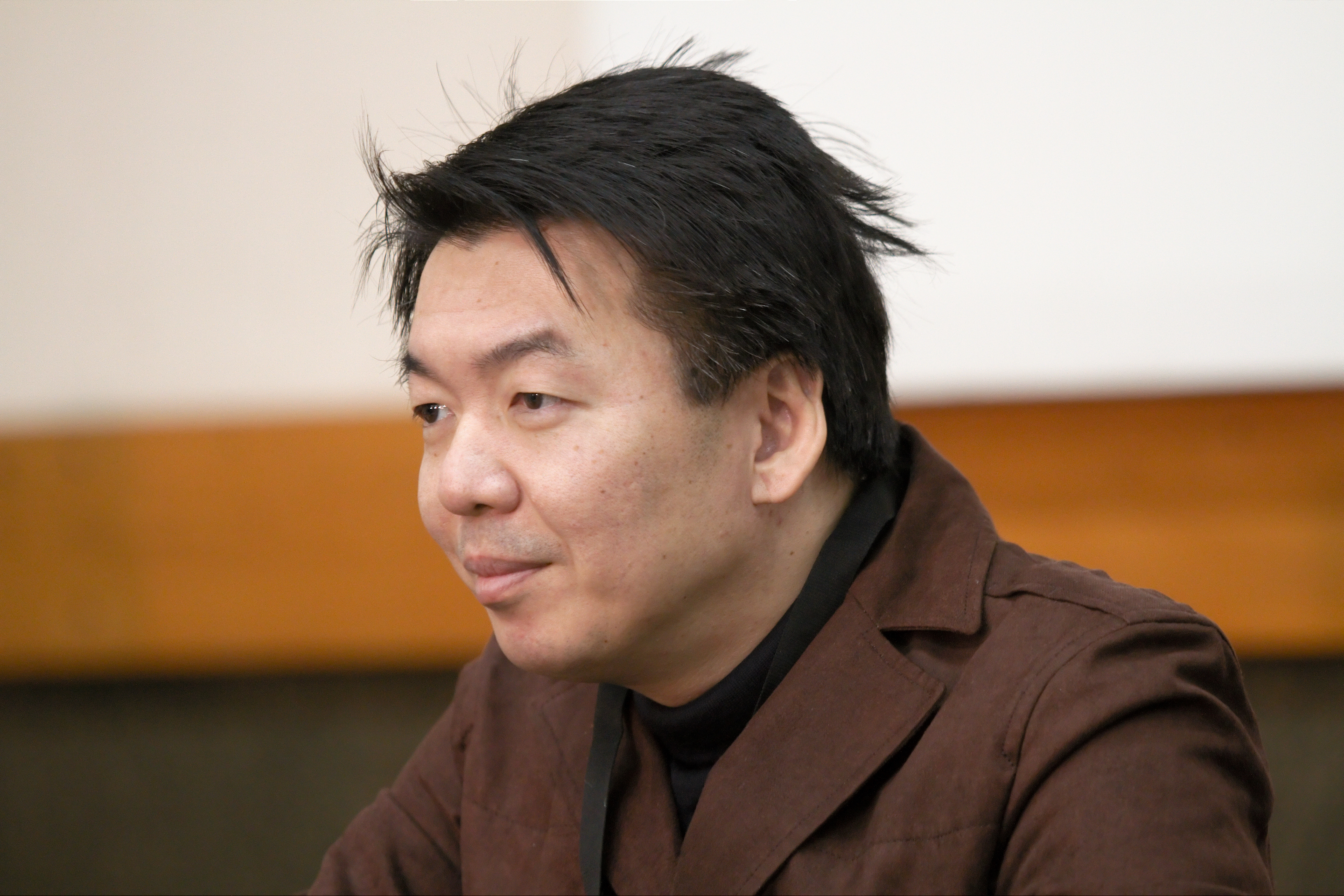 Autograph session with Satoshi Urushihara at Japan Expo Sud 2010 (Marseille, France).